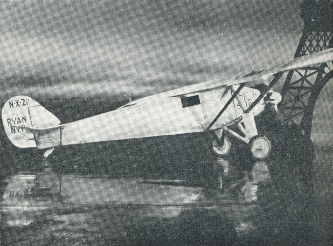 Spirit of St. Louis in Paris . Replica.